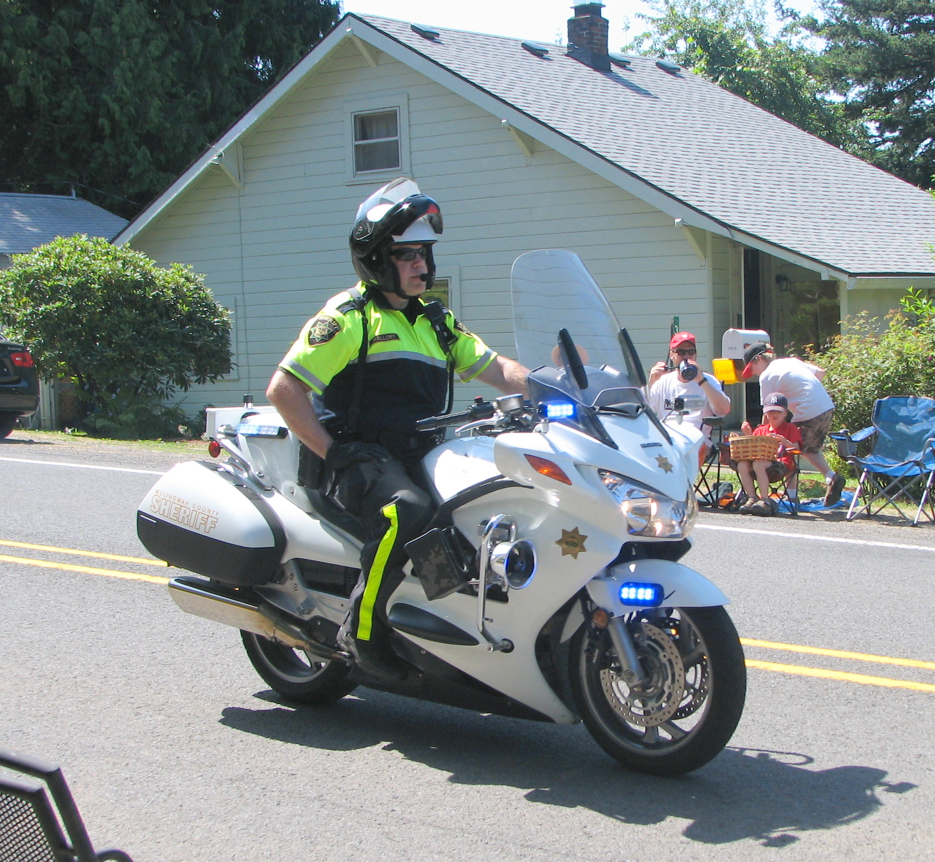 A Multnomah County deputy sheriff patrols the parade route in advance of the Independence Day parade on the Historic Columbia River Highway in Corbett, Oregon, United States, 2009.